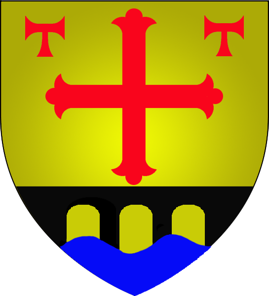 Coat of arms of the municipality of Berdorf, Luxembourg